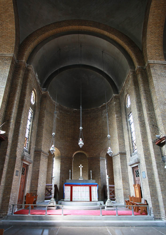 St Barnabas, Shacklewell Row, Dalston - Chancel